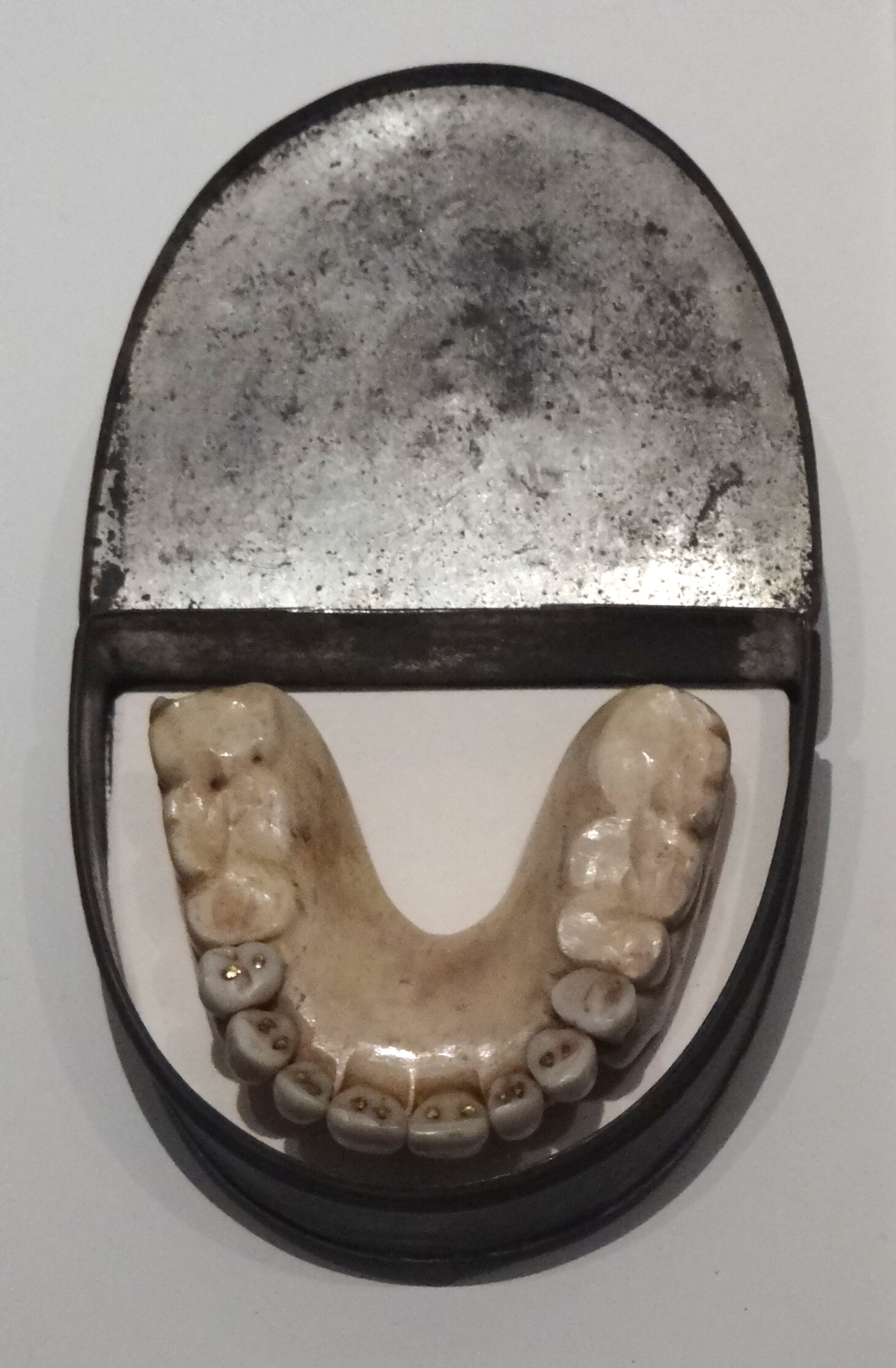 Dentures with Waterloo Teeth - Military Museum - Dresden - Germany